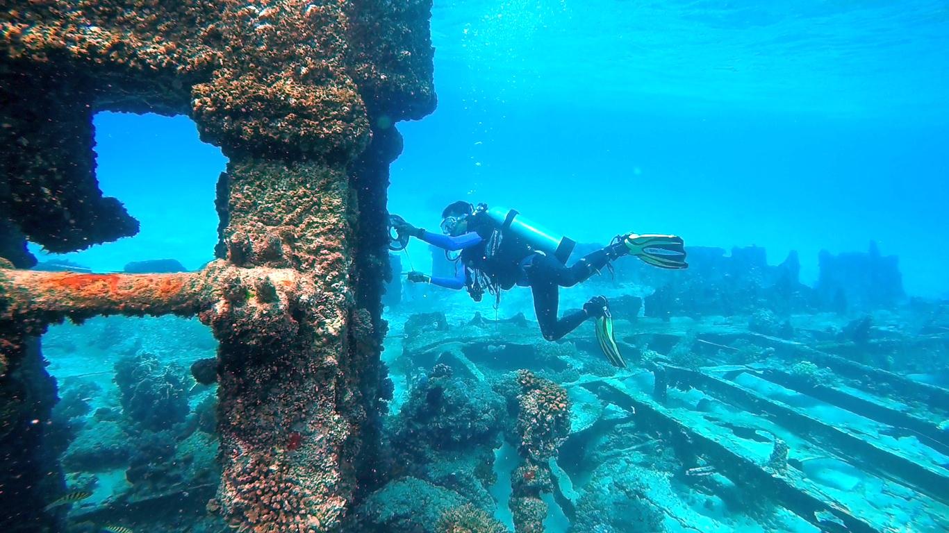 This is a shipwreck engine that is being measured by underwater archeology. This shipwreck uses coal as fuel.